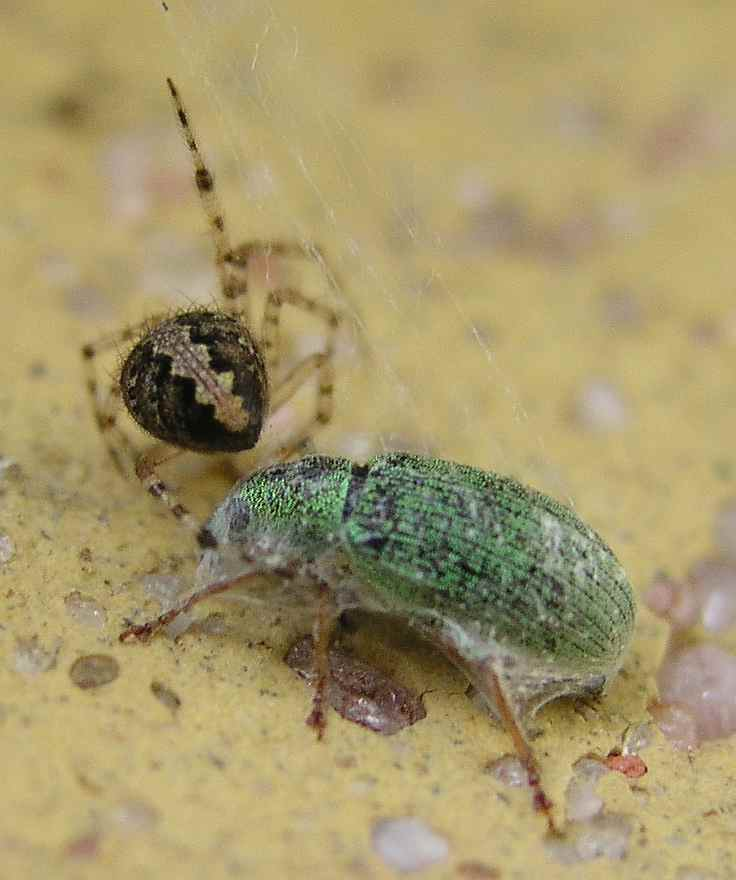 Steatoda triangulosa immobilizing a caught beetle.